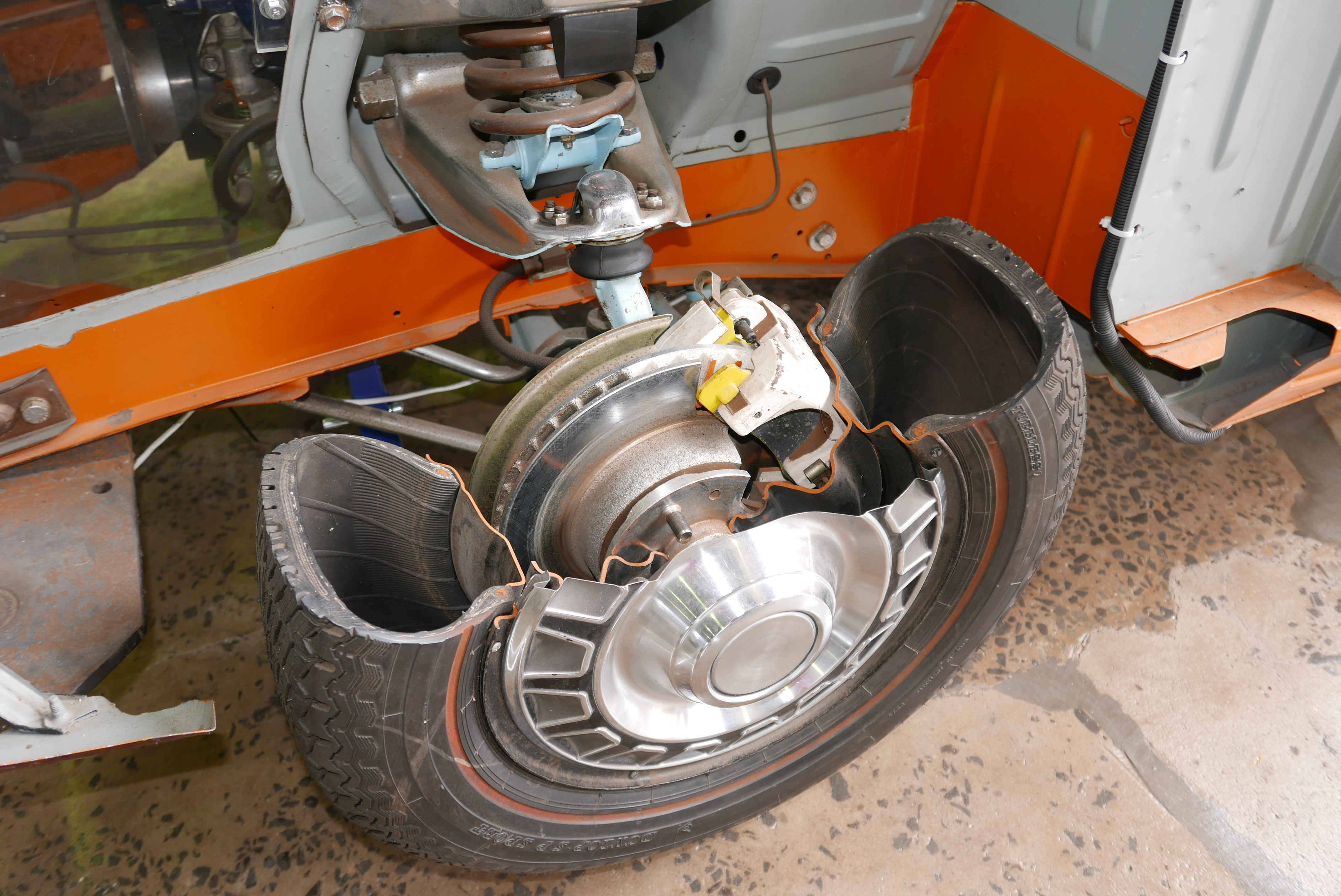 Cutaway of a 1971 Ford Fairmont (XY) sedan, revealing the front suspension, wheel and tyre. Photographed at the Geelong Museum of Motoring and Industry, North Geelong, Victoria, Australia. This vehicle when brand new was sectioned by Vivian Expositions Co Pty Ltd of Clifton Hill, Victoria for display by Ford Australia at the 1971 Melbourne Motor Show. It was later donated to Victoria Police for training purposes.